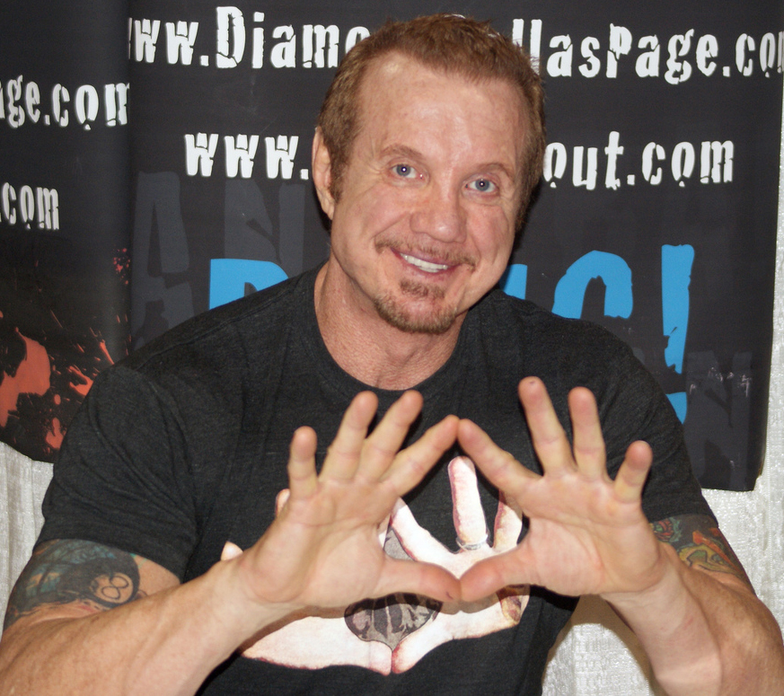 Diamond Dallas Page attending the Calgary Comic & Entertainment Expo in BMO Centre, Calgary, Alberta, Canada.